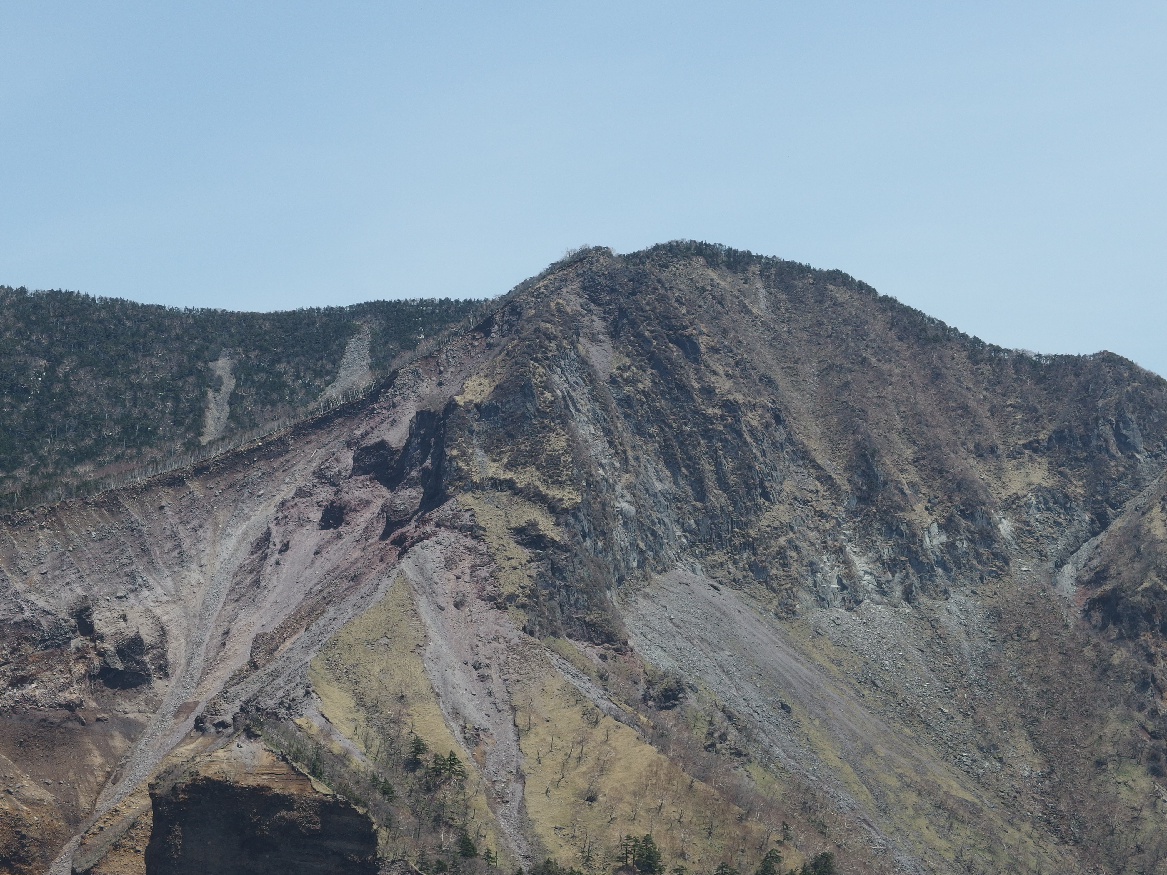 Japan: Ōshikaotoshi landslide on mount Nyōhō (Nikkō city, Tochigi prefecture).